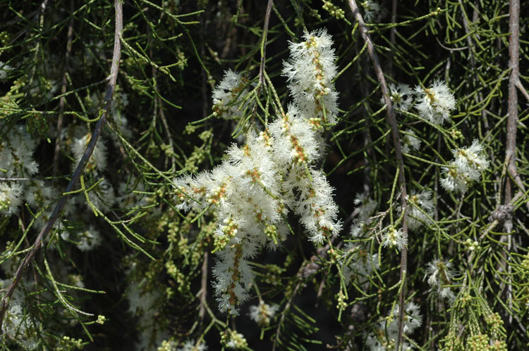 Melaleuca tamariscina flowers